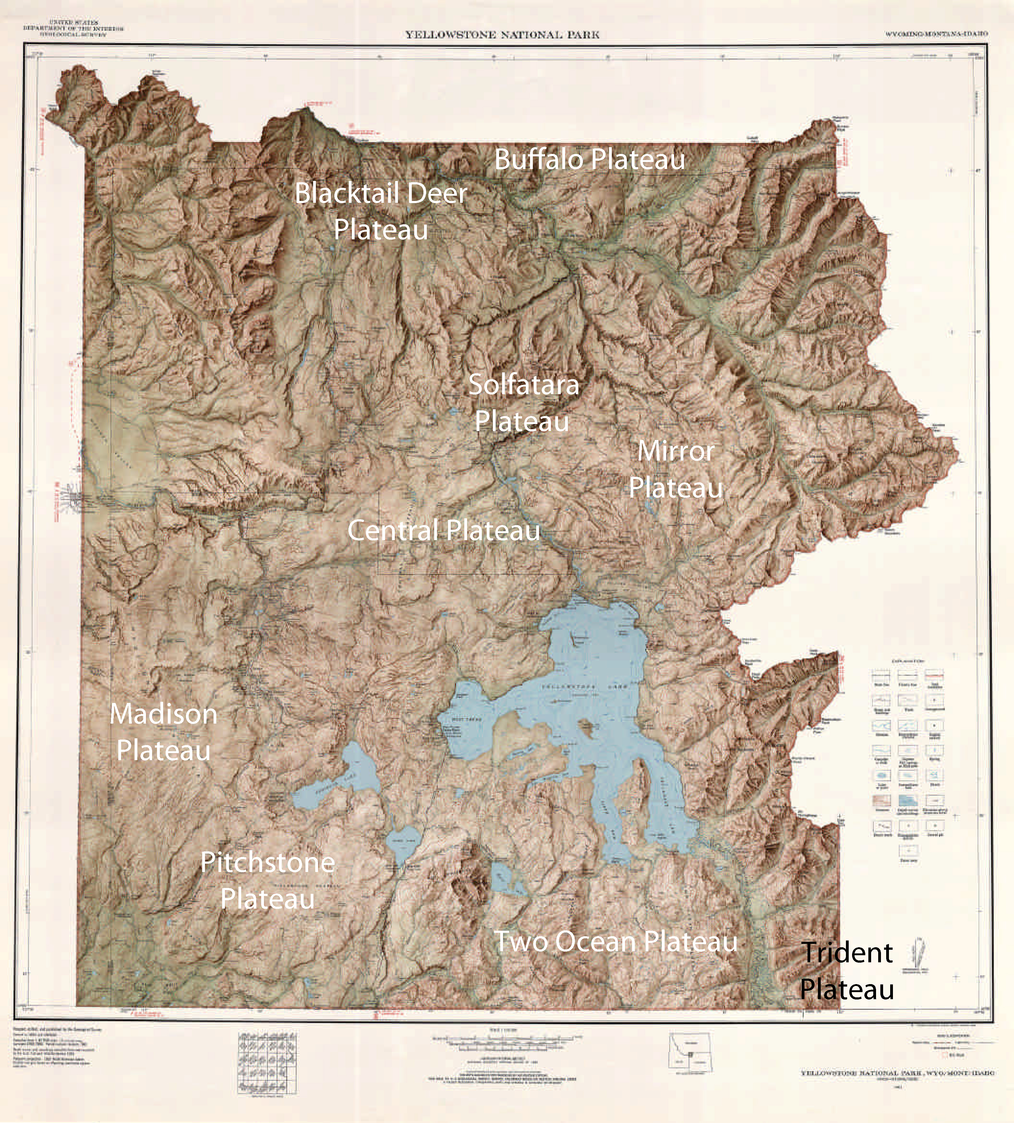 US Geological Survey Map of Yellowstone National Park with plateaus annotated